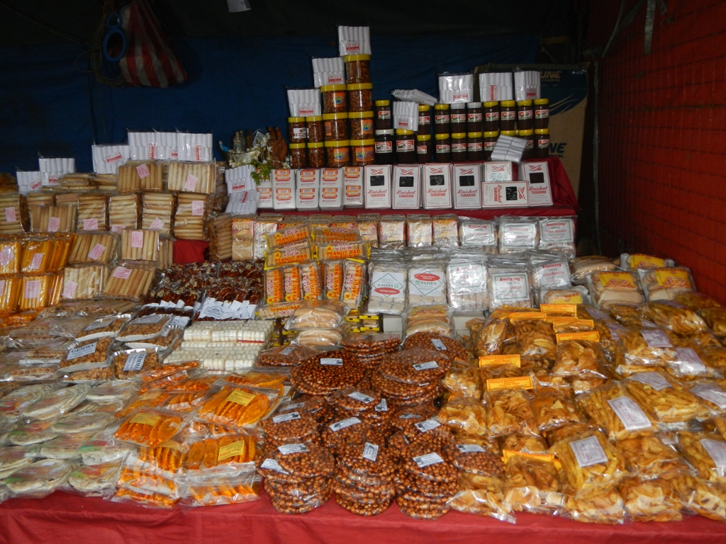 Krus sa Wawa, Pagoda Festival, Bocaue, Bulacan, Fluvial Parade and Procession resurrecting from the Bocaue Pagoda Tragedy (under the 2015 Version of the Renovated, Inaugurated on January 12, 2015, Saint Martin of Tours Parish Church of Bocaue of the Roman Catholic Diocese of Malolos, Bulacan, Krus sa Wawa, Pagoda Festival, Fiesta patronal and Procession, July 4-5, 2015).